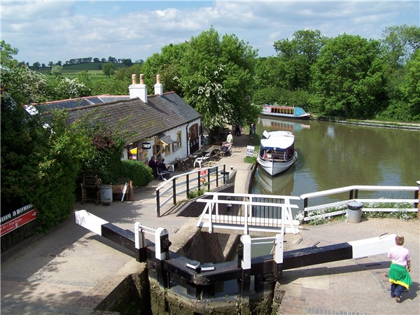 Foxton Locks-bottom of locks taken by kev747